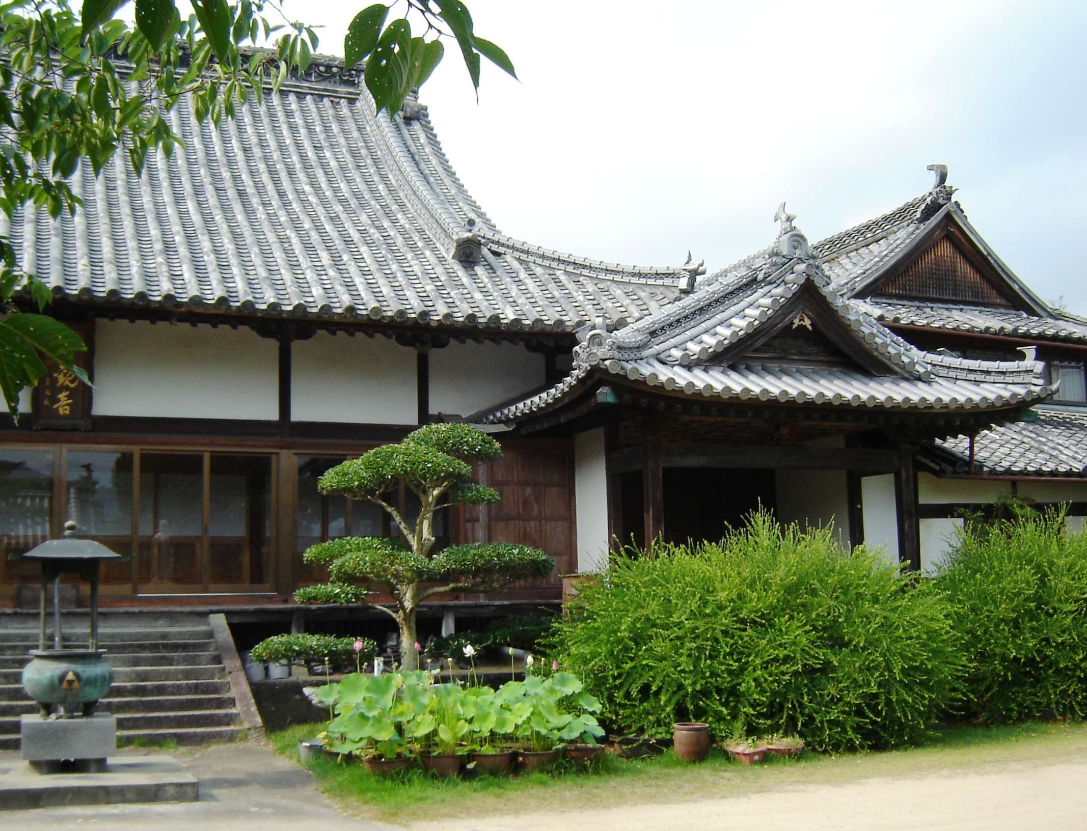 The Saimyō Temple in Mima-shi, Tokushima-ken, Japan. For (many) details: see Mima